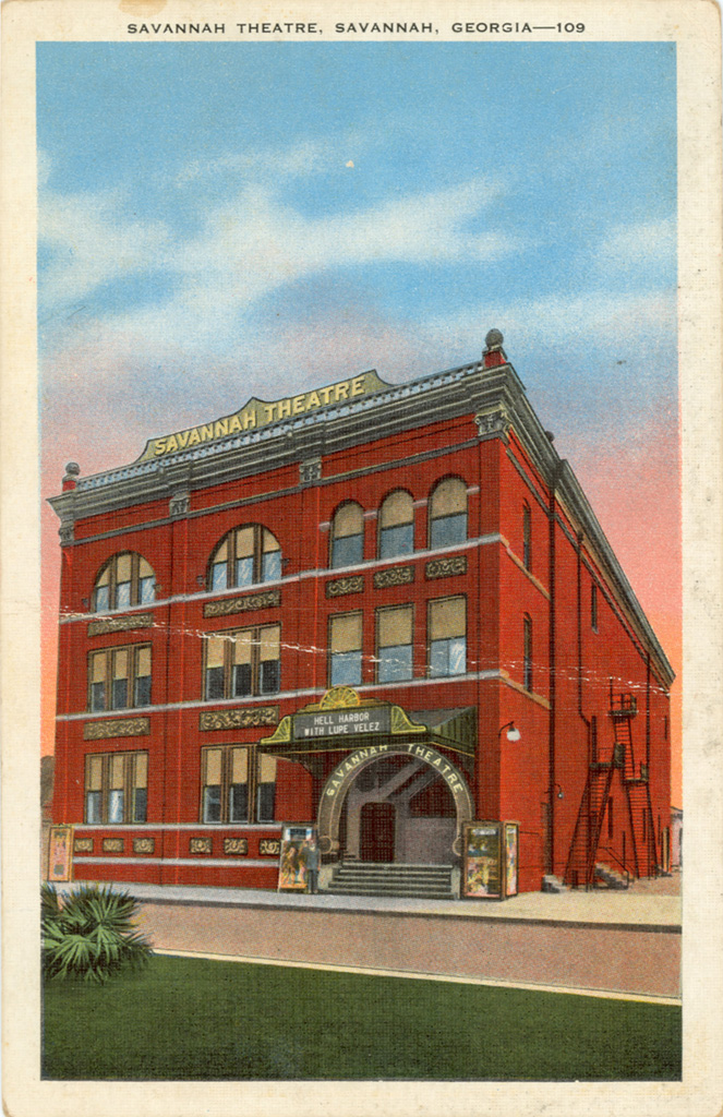 Color postcard with no border and divided back, postmarked in 1908. This is actually the Savannah Theater, which opened in 1818 on Chippewa Square. It was designed by William Jay and constructed by mason Amos Scudder. Due to a number of fires, it was remodeled several times. The image here is the 1906 remodel which resulted in a new brick facade, with cast terra cotta panels. Many of the windows were filled in. Another remodeling after a fire in 1948 resulted in the Art Deco style it has today. The Savannah is the oldest theater active in use in the United States. The card was published by Valentine and Sons. Originally a Scottish publisher, they opened a New York office in 1907. The cards were still printed in Great Britain and used a lithographic halftone process that had a distinct look. Postcards were numbered and have a three digit prefix and a three digit suffix.